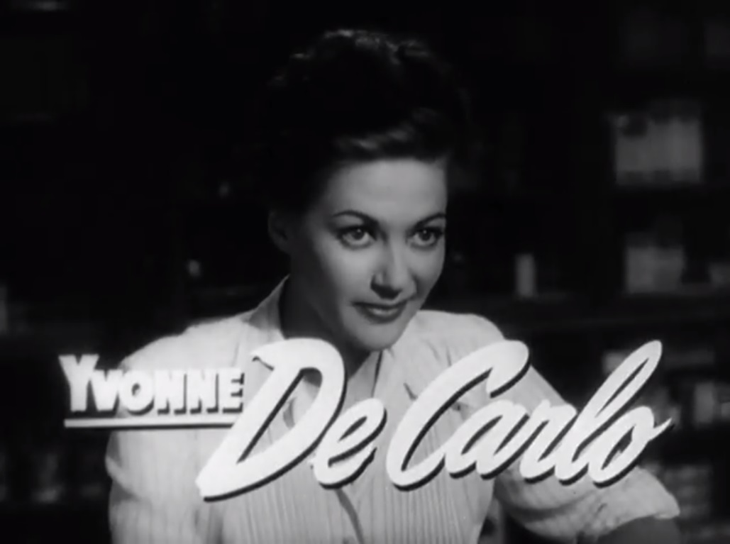 Screenshot of Yvonne De Carlo from the trailer for the film Criss Cross (1949).